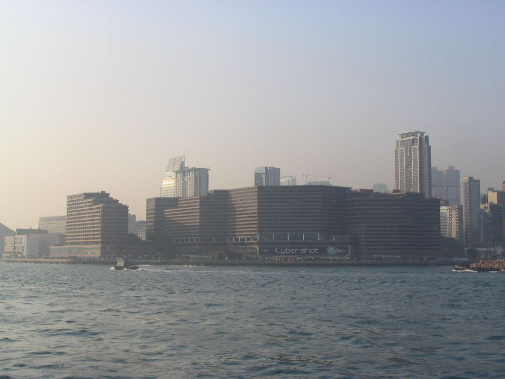 尖沙咀-新世界中心 New World Centre, Tsim Sha Tsui